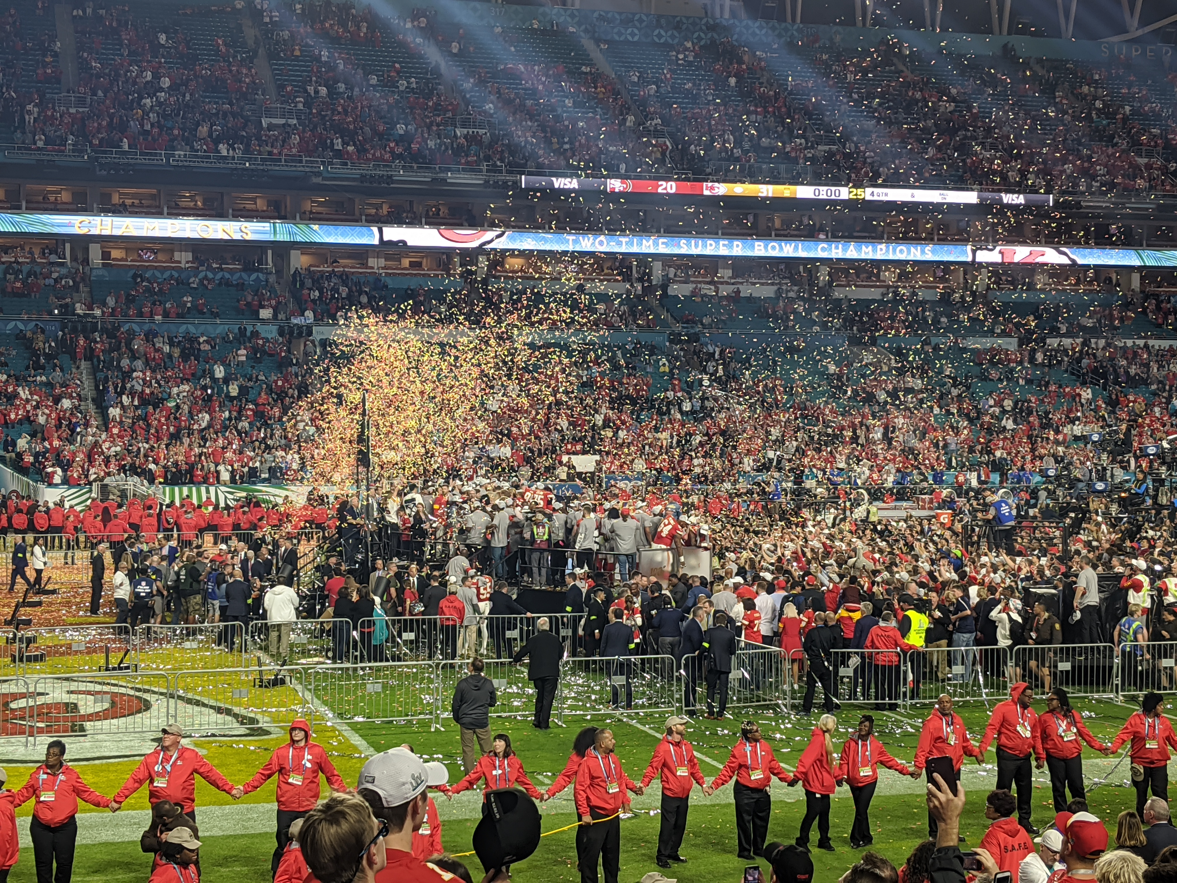 Post Game Celebration after the Chiefs won Super Bowl LIV